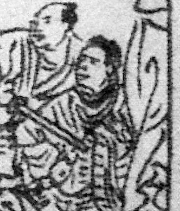 This might be Pieter Nuyts